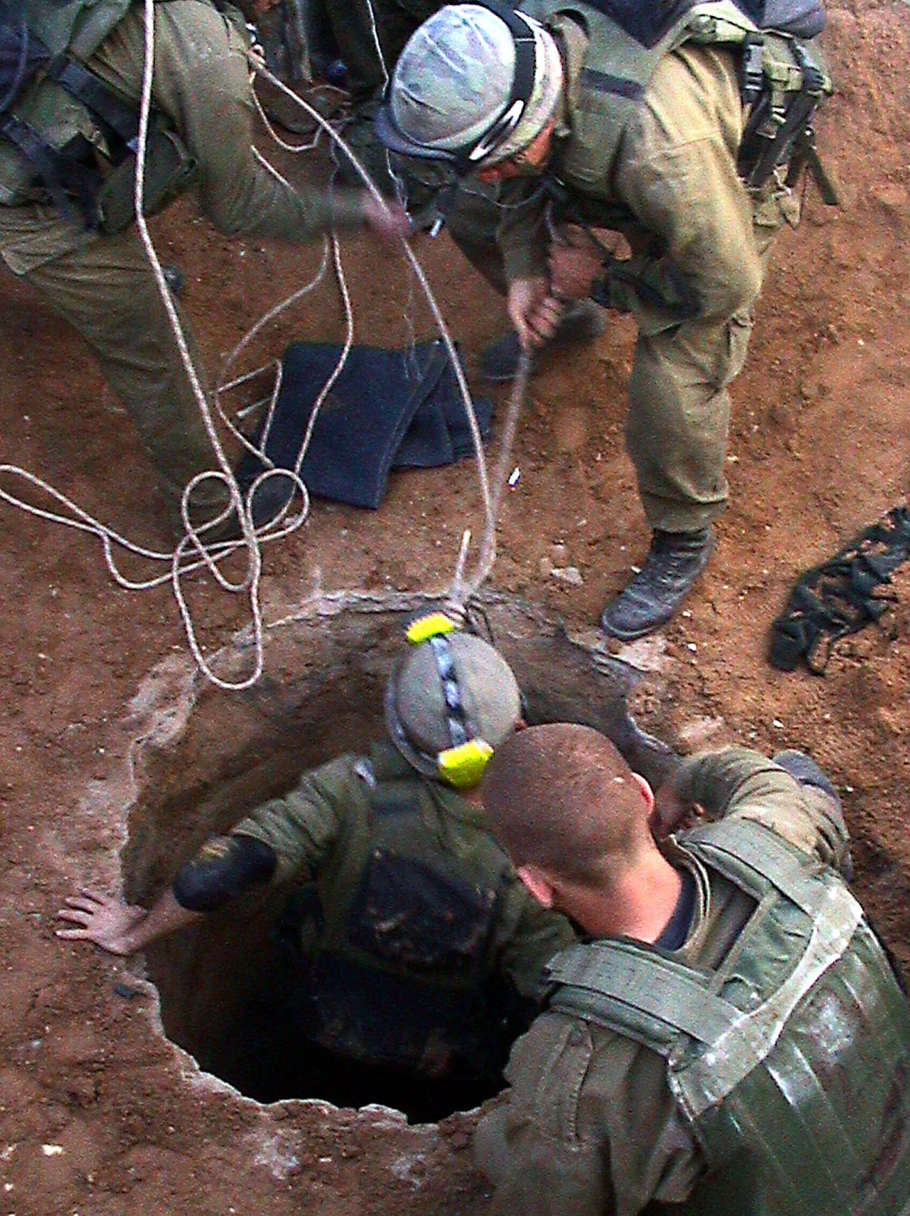 05/22/2004 IDF and Border Police forces uncovered a tunnel designated for smuggling munitions. Inside the 8 meter deep tunnel found near the Israeli-Egyptian border, forces found an explosive device weighing 40 kg.